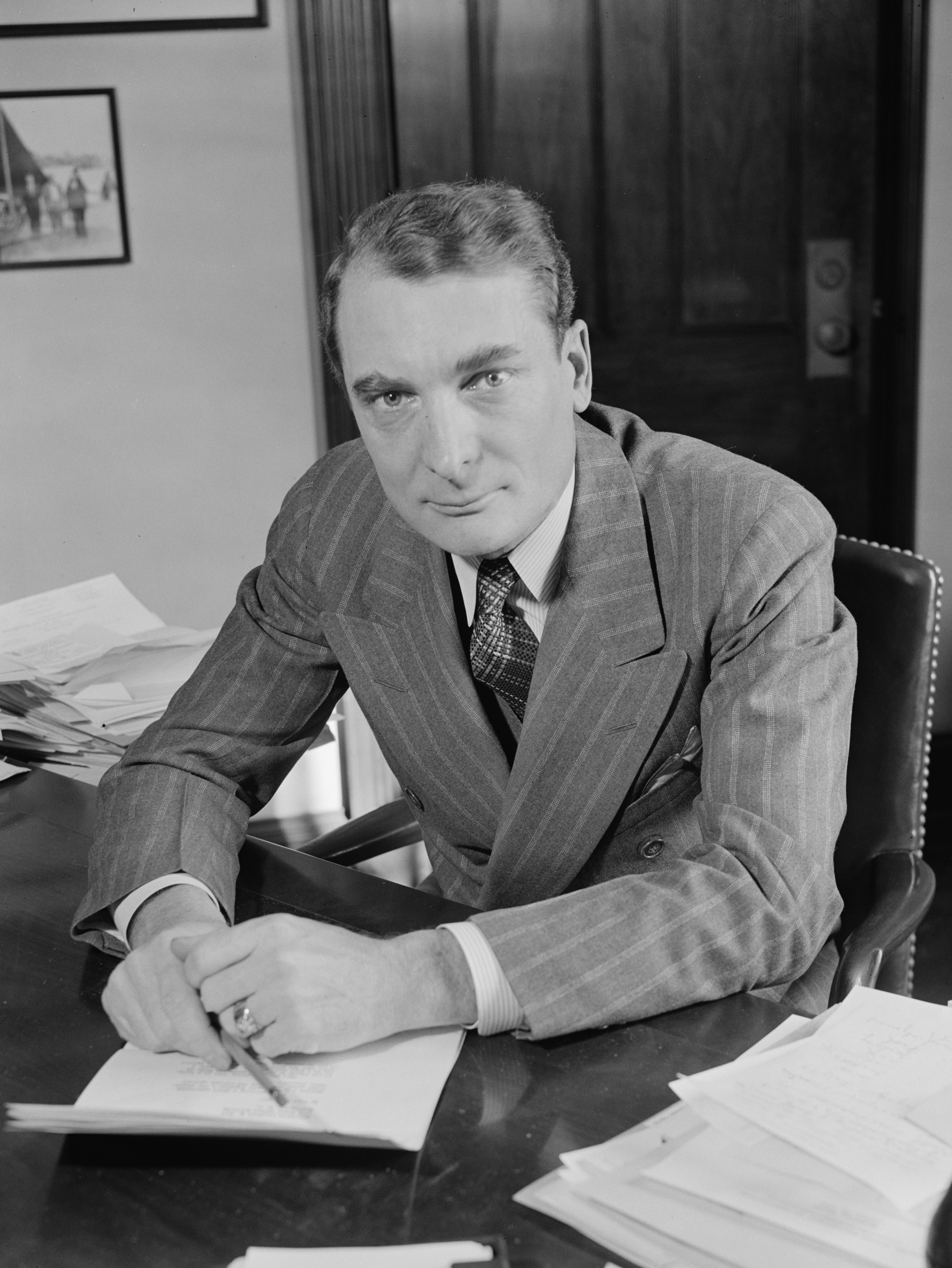 Title: Rep. Clifford R. Hope, Republican of Kansas, Jan. 1940 Abstract/medium: 1 negative : glass ; 4 x 5 in. or smaller